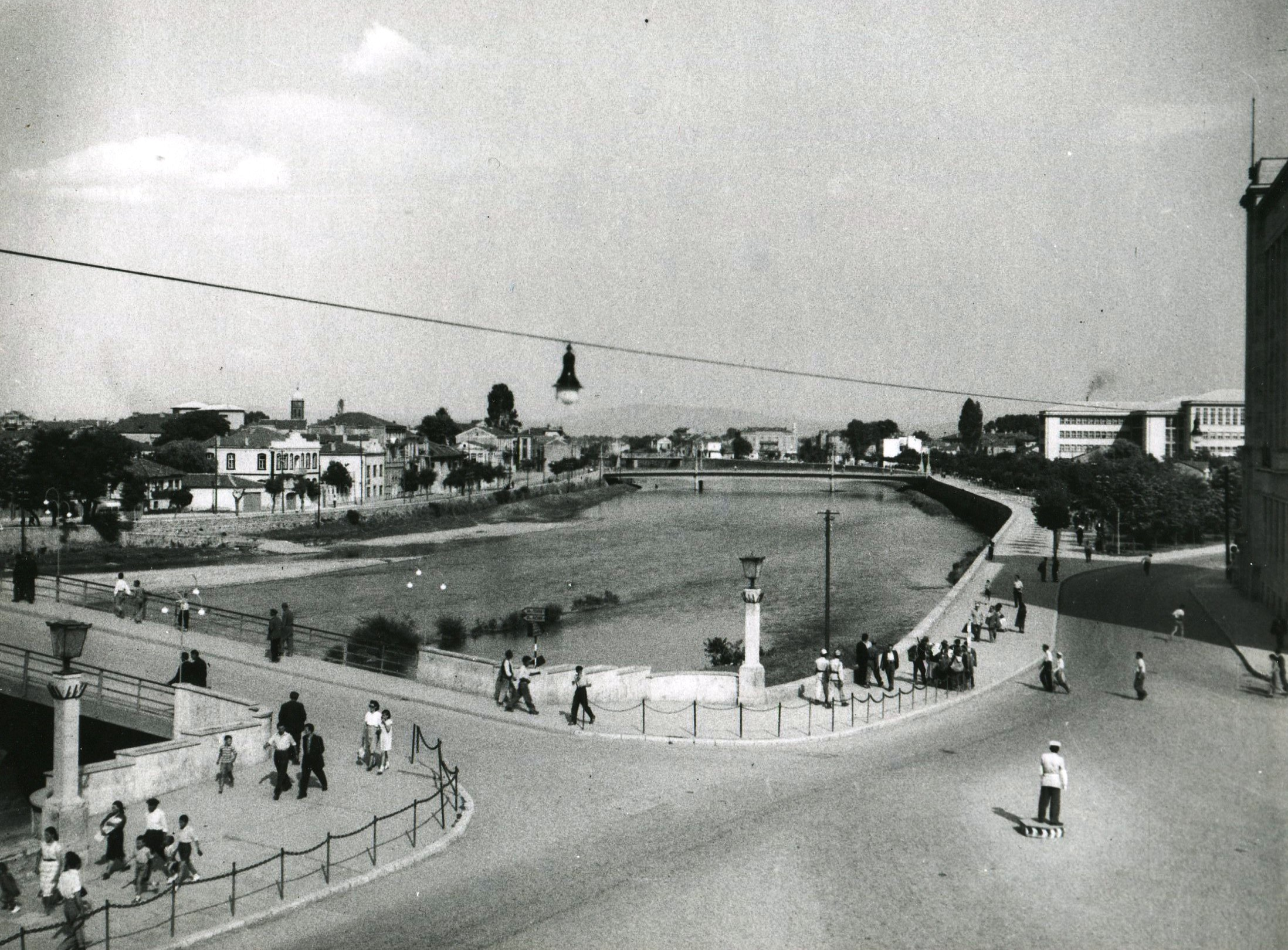 Part of Skopje, 1950s This media file is produced by Wikipedian in Residence in Category:Wikipedian in Residence at DARM in 2016.